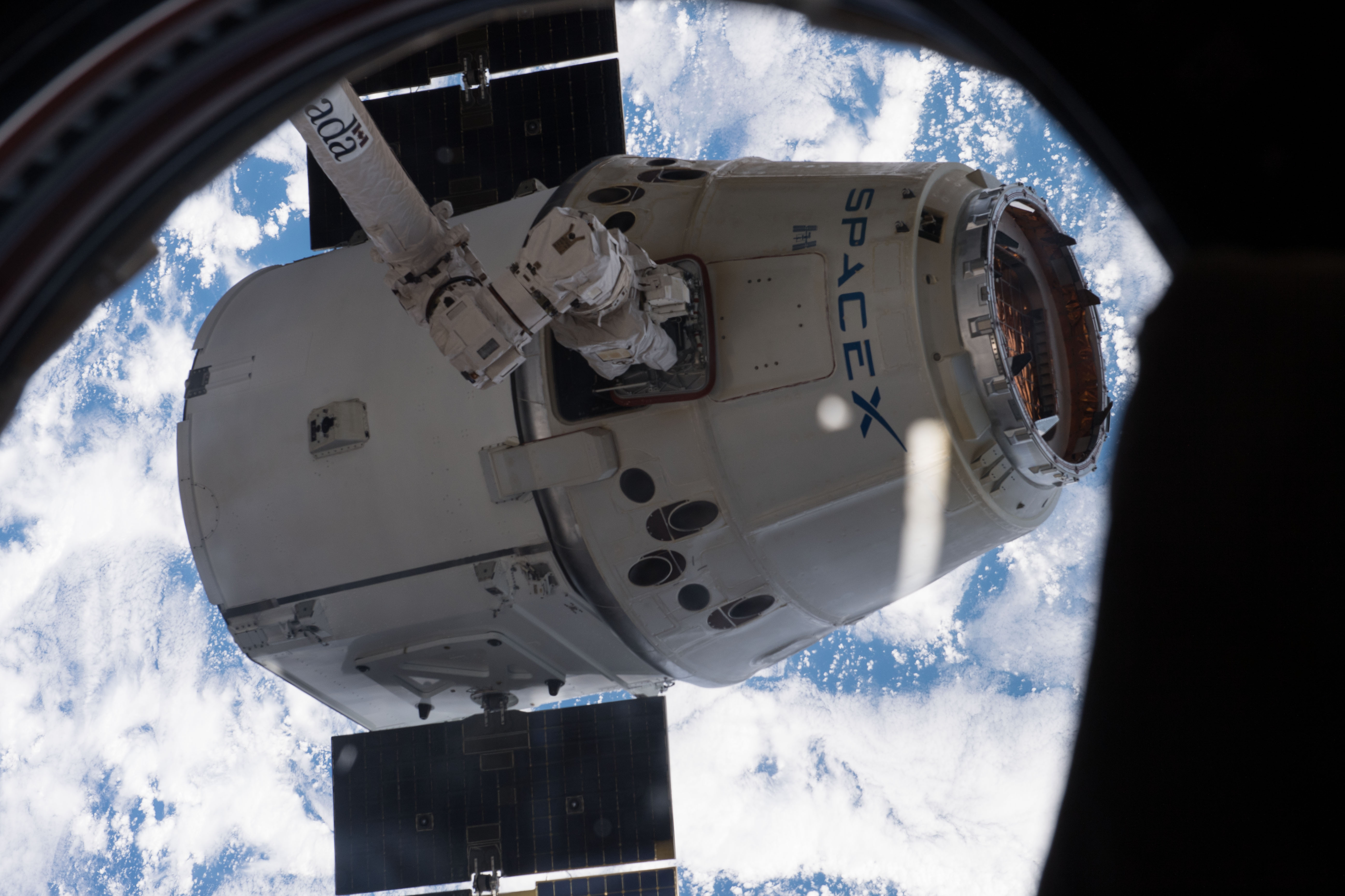 The SpaceX Dragon is pictured from inside the seven-windowed cupola moments before ground controllers remotely commanded the Canadarm2 to release the resupply ship from its grips.